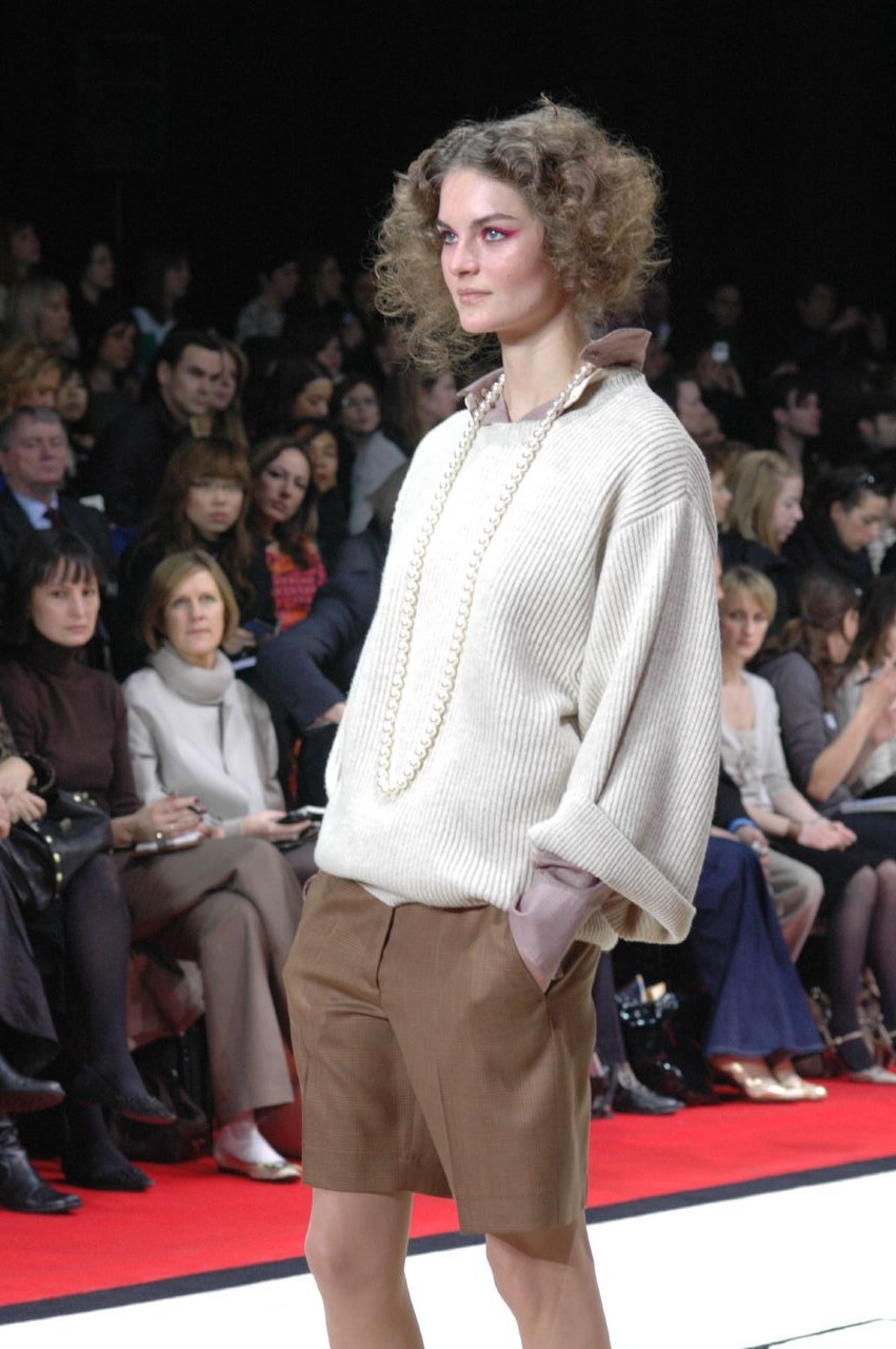 Anouck Lepere at Paul Smith Women fall 2007 show, London Fashion Week.